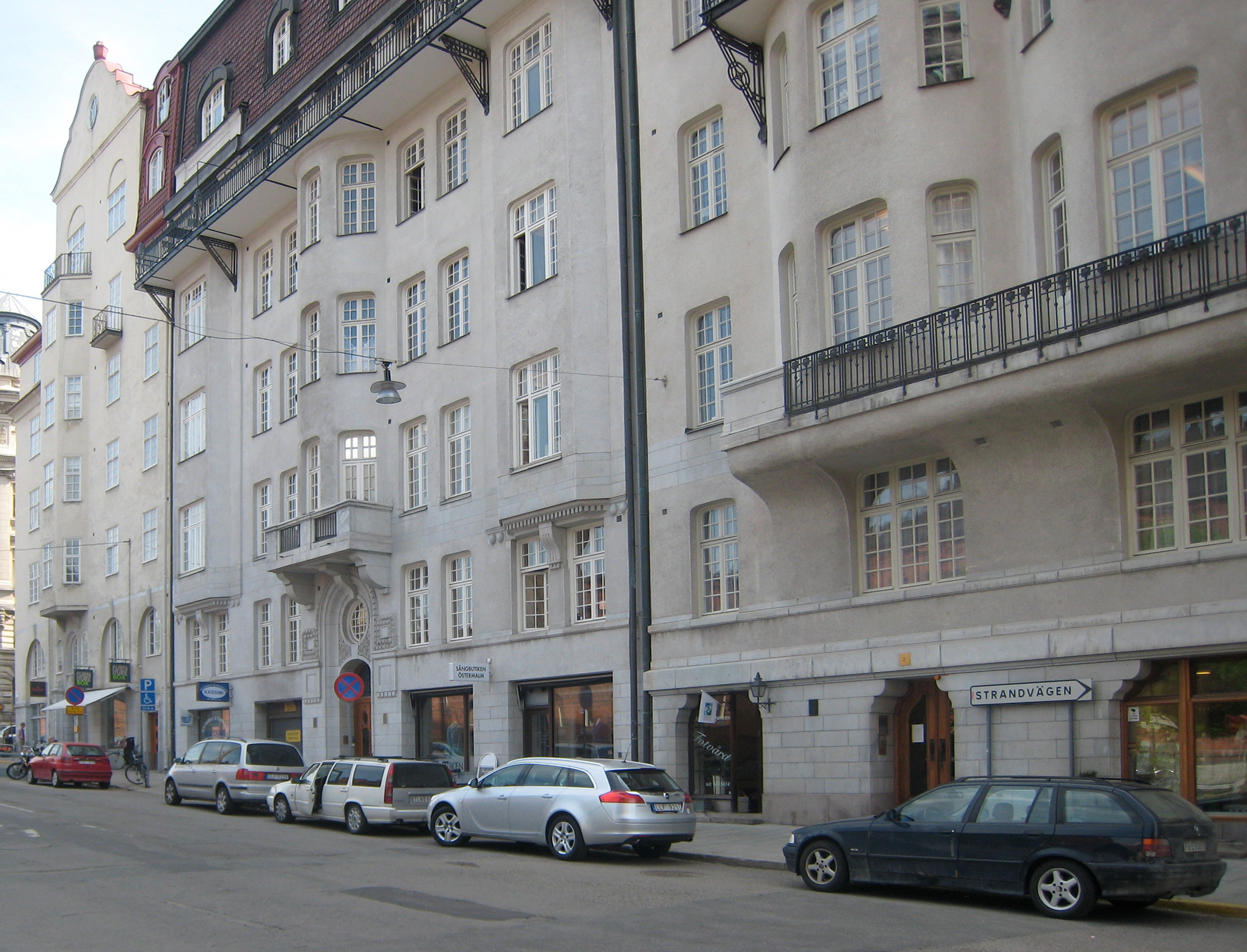 Artellerigatan 4.